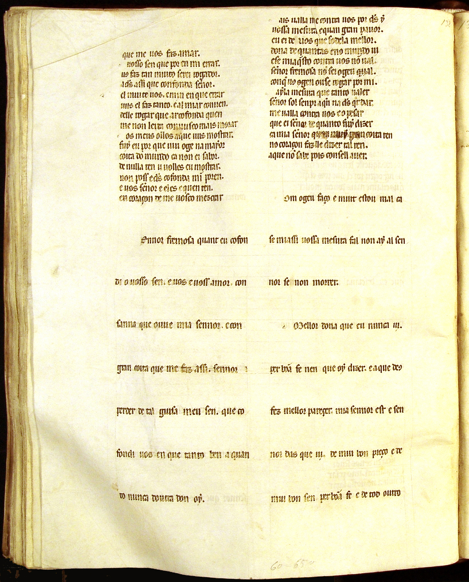 Cancioneiro da Ajuda manuscripts